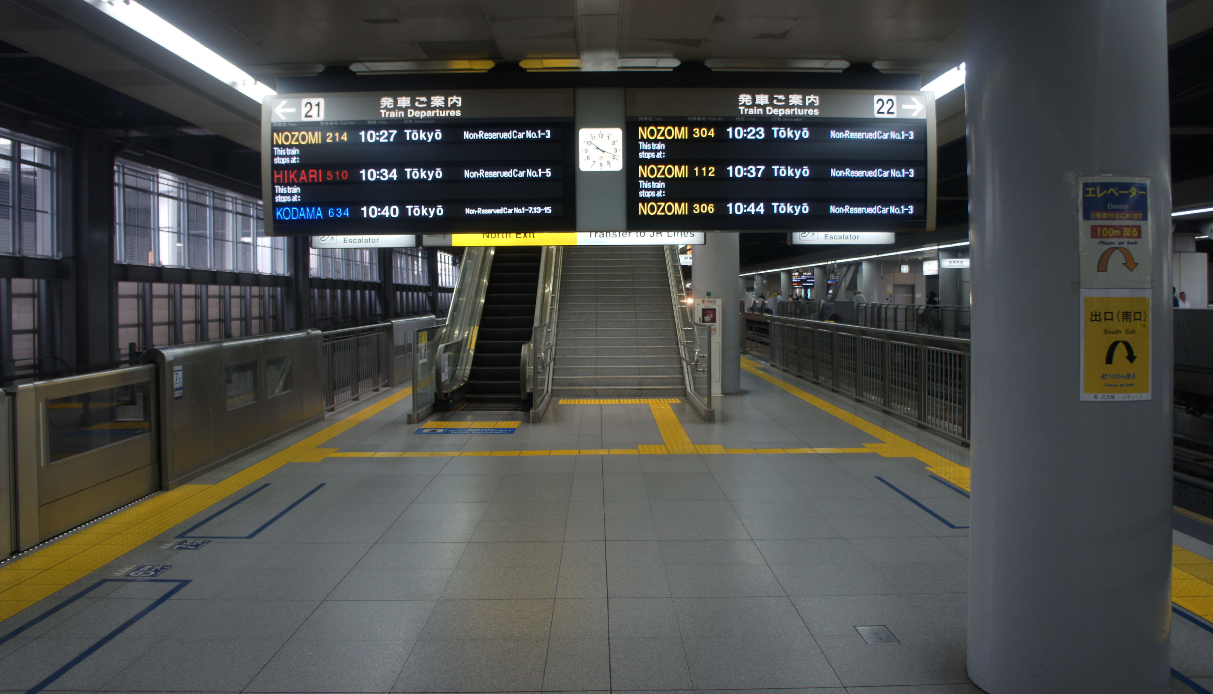 Platform 21・22 (Tokaido Shinkansen) of JR Shinagawa Station Sony NEX-3 + E 18-55mm F3.5-5.6 OSS